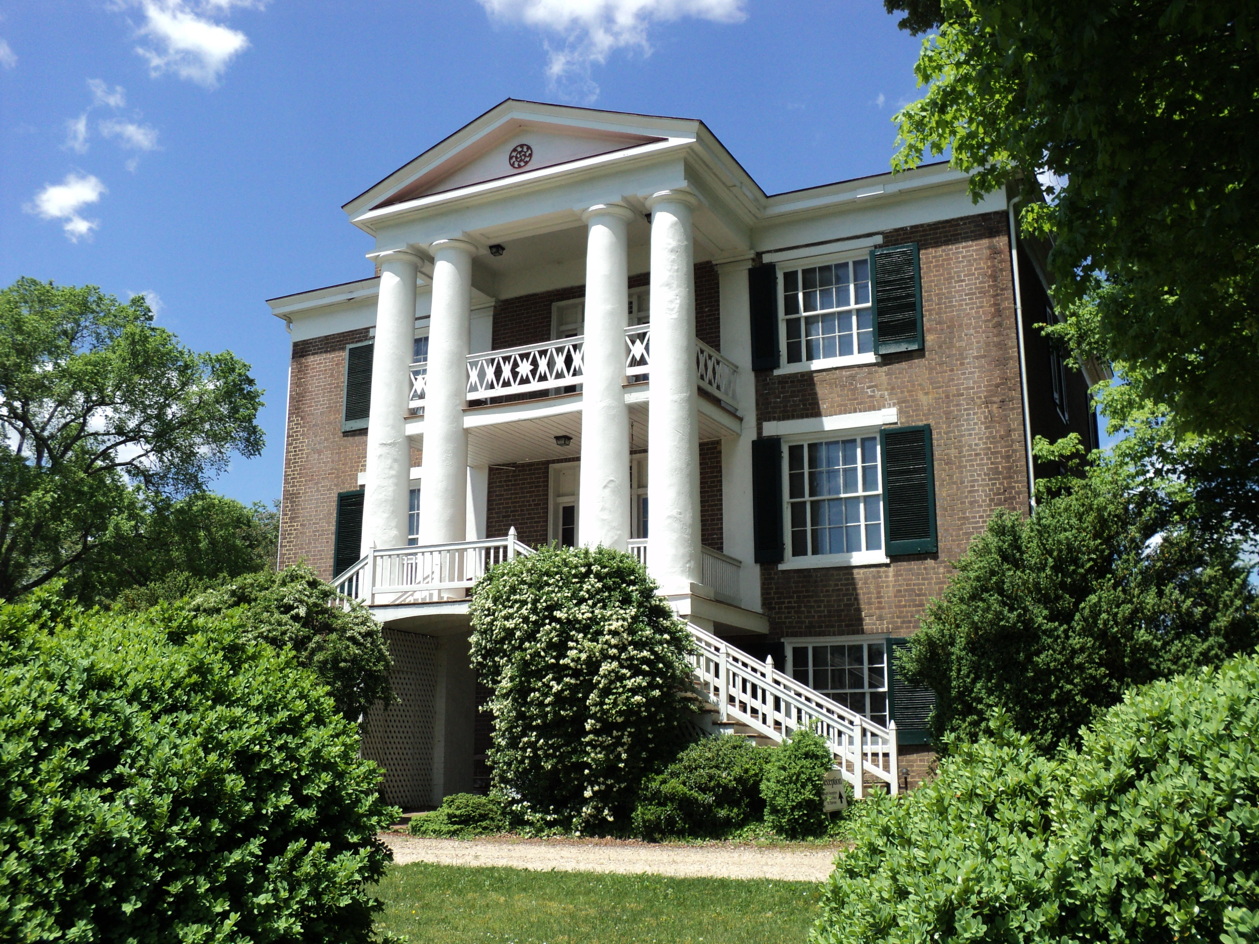 Photograph of "Maple Hall," 1850's antebellum brick home located seven miles north of Lexington, Virginia, on U.S. Highway 11, in Rockbridge County.